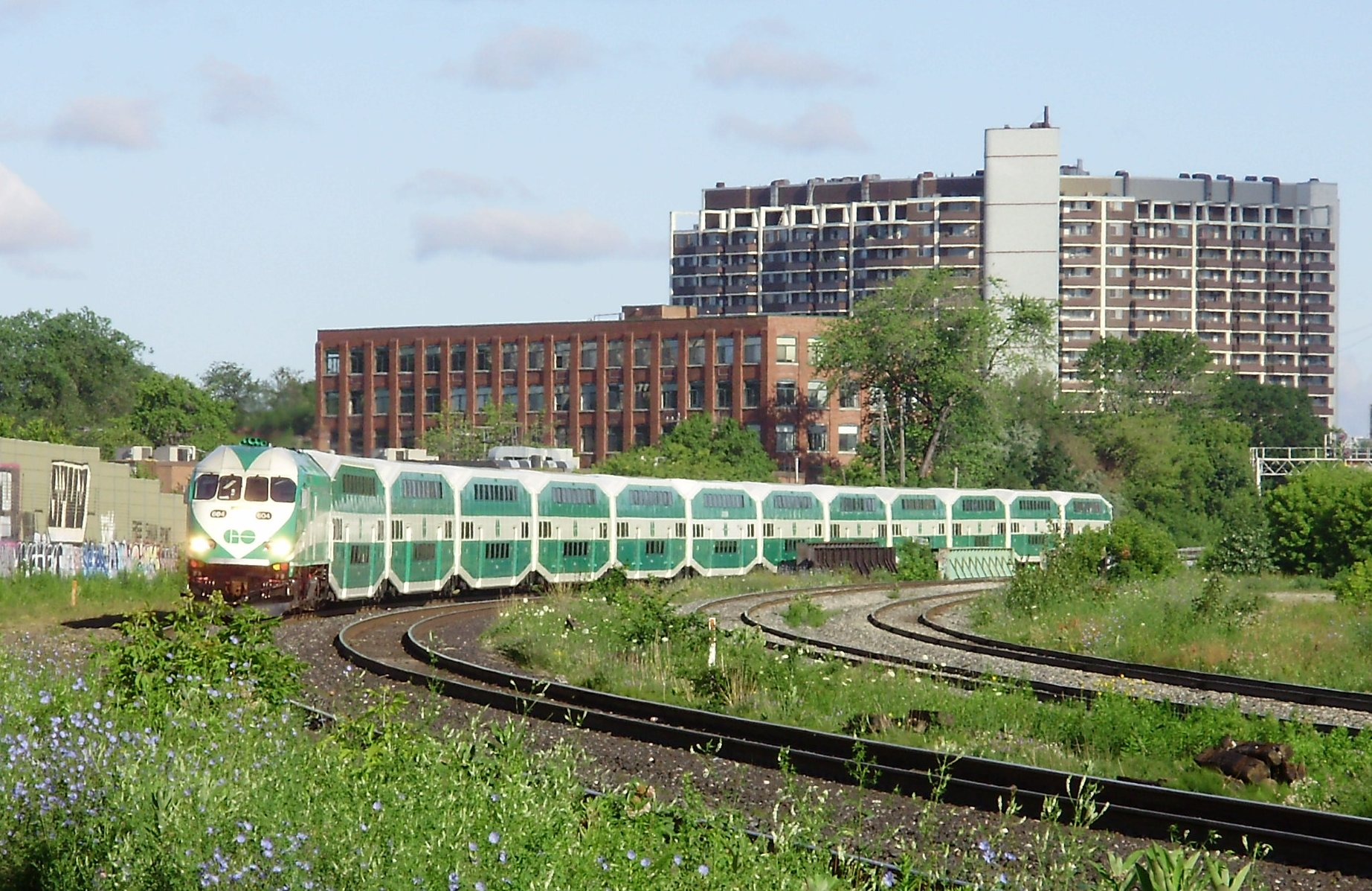 A GO Transit train on the Milton line, south of Queen Street West and travelling eastbound to Union Station in Toronto, Canada. The twelve-car train is being pulled by GO 604, an MP40PH-3C locomotive. The same rail corridor is used by Georgetown and Barrie line trains.